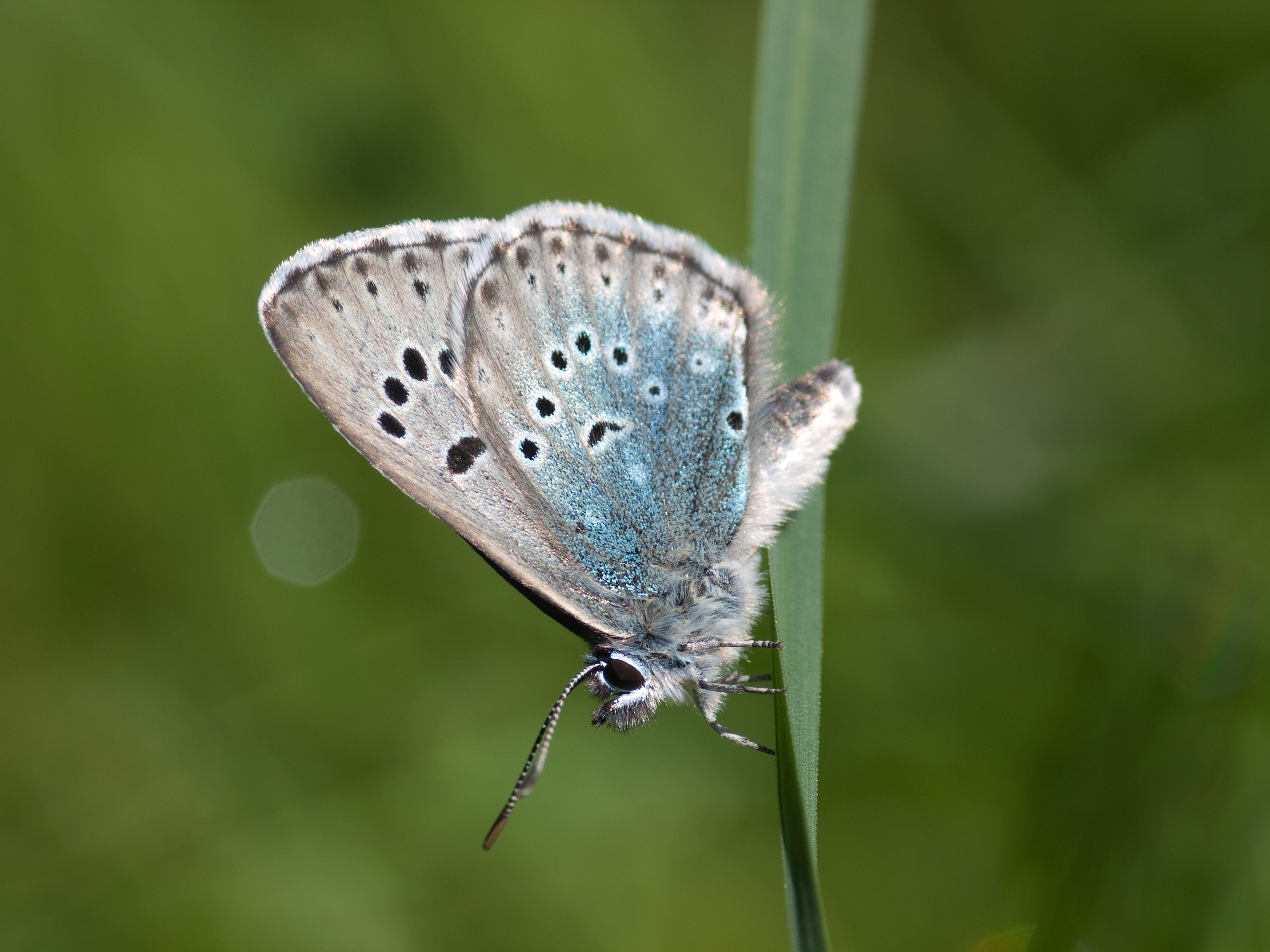 Phengaris arion (= Maculinea arion). Picture taken near Ehrwald, Austria